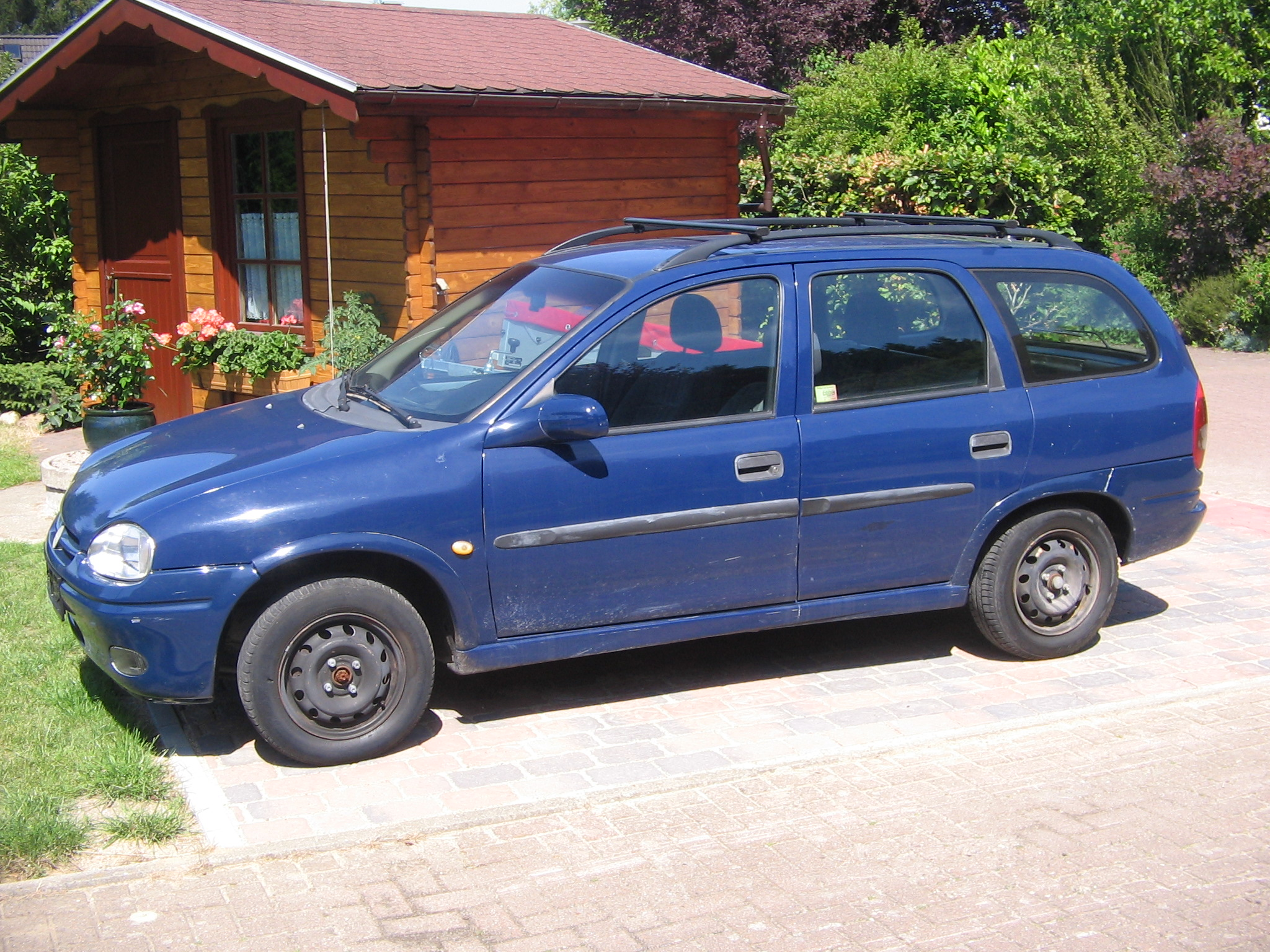 1999 Opel Corsa B Station Wagon